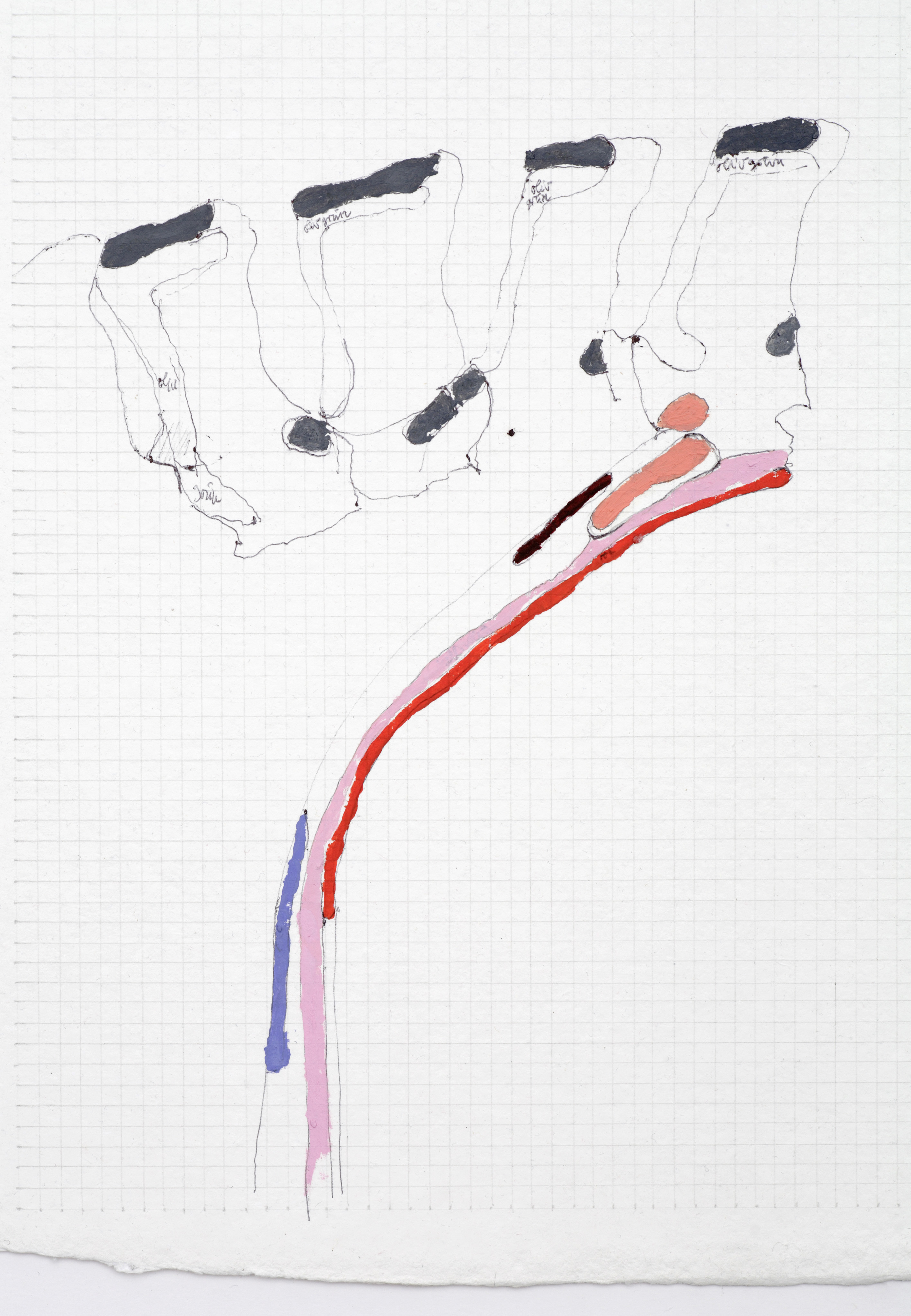 With permission by Mark Lammert.